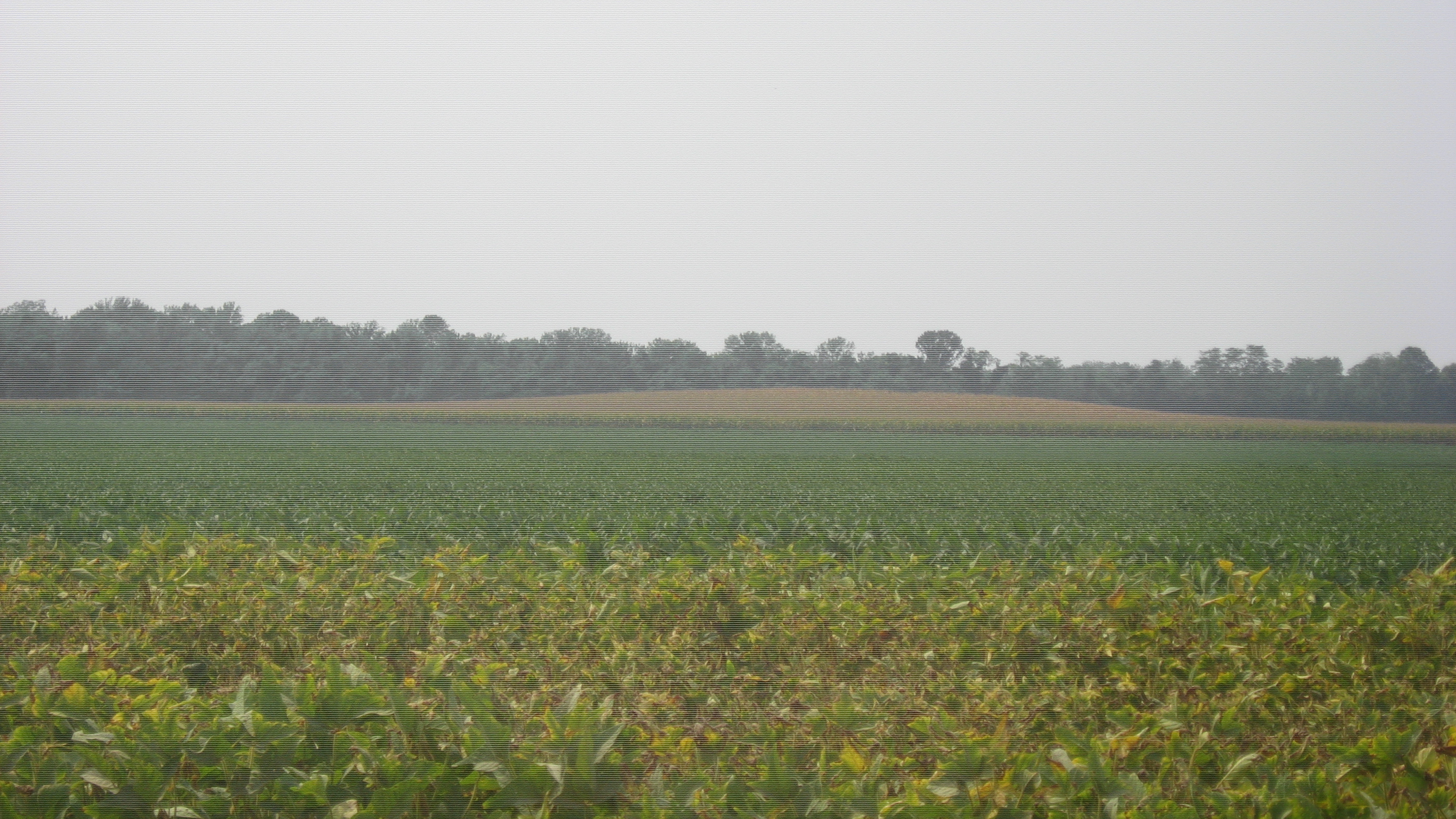 Overview of the Mann Site, looking west from Indian Mound Road north of the Winiger Road intersection, southeast of Mount Vernon in Black Township, Posey County, Indiana, United States. Among the largest of all Hopewell earthworks, it is an archaeological site and listed on the National Register of Historic Places.